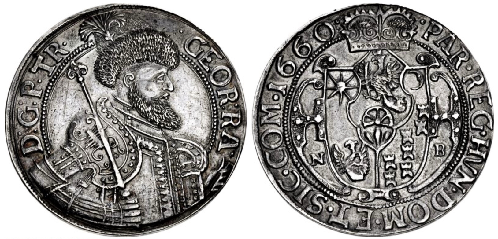 Thaler of George II Rákóczi minted in 1660 in Nagybánya/Baia Mare (41 mm, 26.46 g)